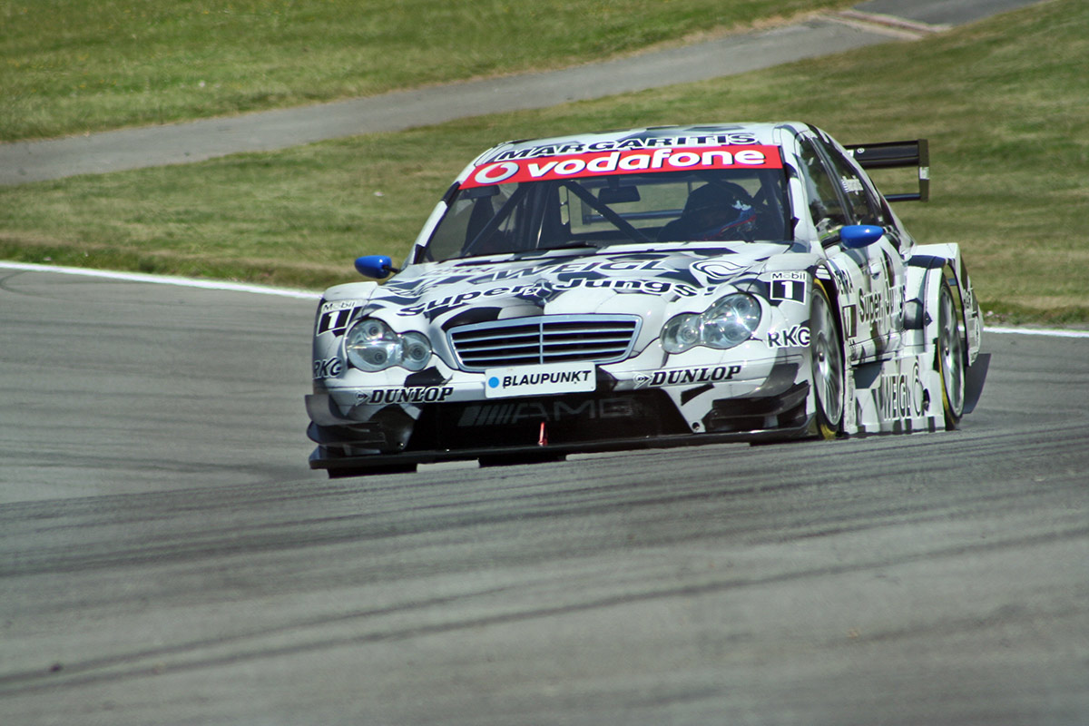 Alexandros Margaritis driving for Mercedes-Benz in the 2006 Deutsche Tourenwagen Masters season.